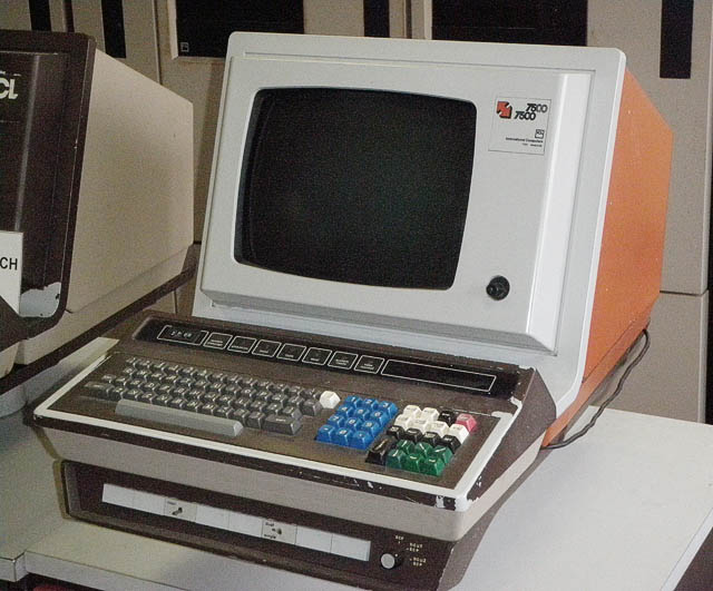 An ICL 7561 terminal, currently part of the exhibition at the National Museum of Computing, Bletchley Park, UK